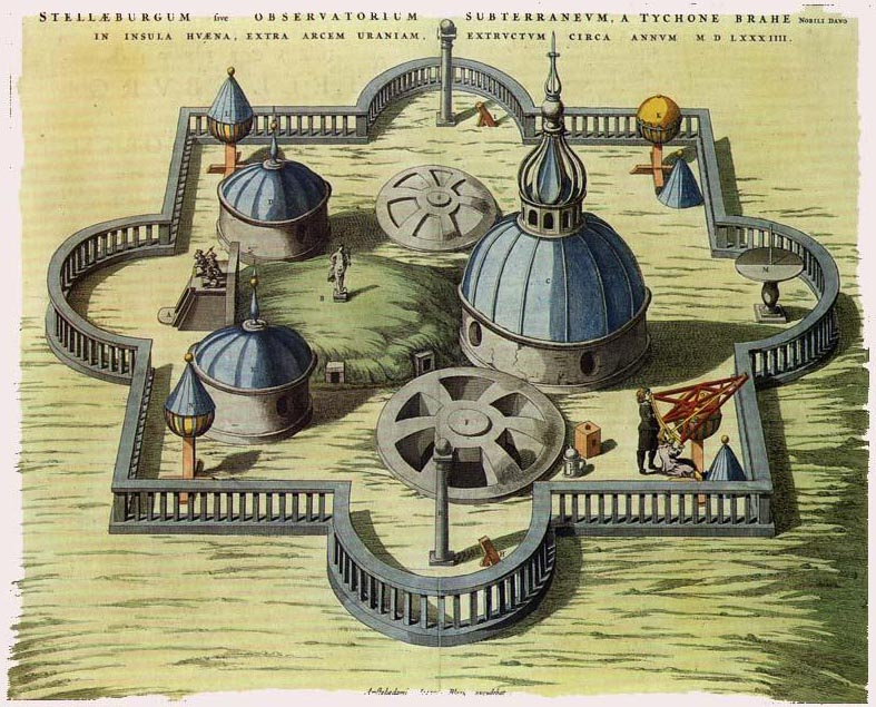 Tycho Brahe's Stjerneborg from Joan Blaeu's Atlas Maior, Amsterdam 1662, vol. 1 This image is a hand-colored copper-plate engraving by Willem Blaeu of the Stjerneborg observatory circa 1595. It is taken from an Atlas by his son, Joan Blaeu, published in 1662 in Amsterdam. It is based on a woodcut originally published in Brahe's own Astronomiæ instauratæ mechanica (1598)